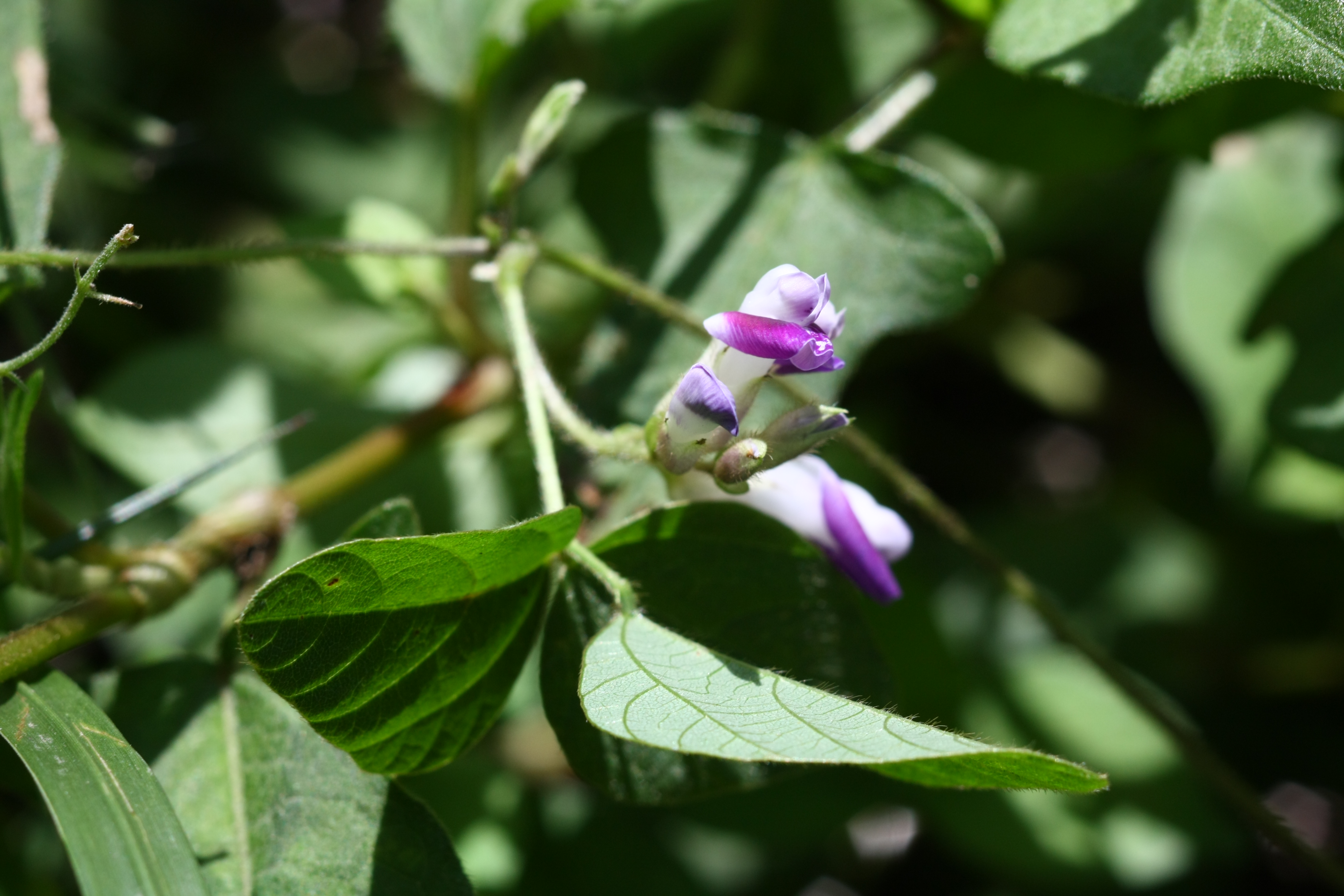 Amphicarpaea bracteata subsp. edgeworthii